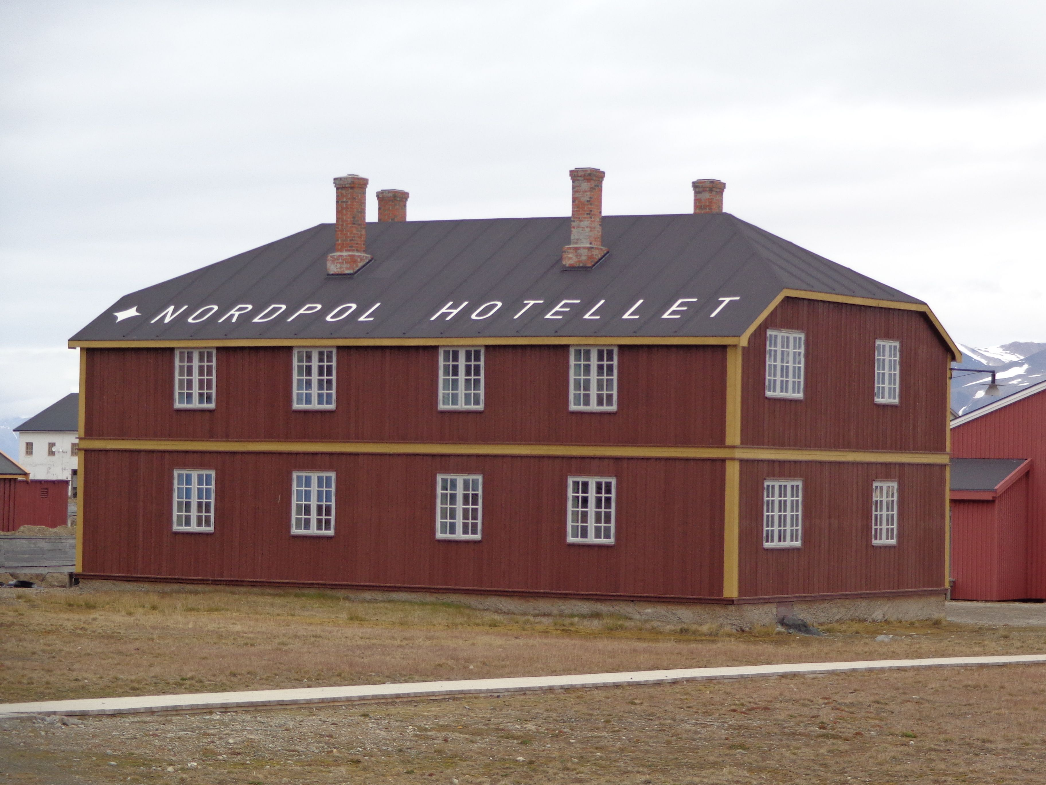 Nordpol Hotellet, Ny-Ålesund